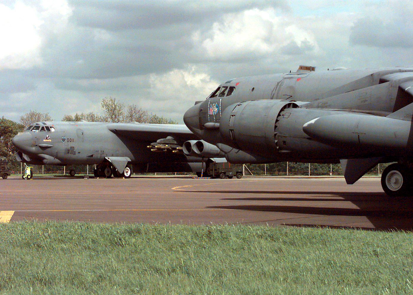 Stratofortress taxis along the flight line at RAF Fairford, United Kingdom